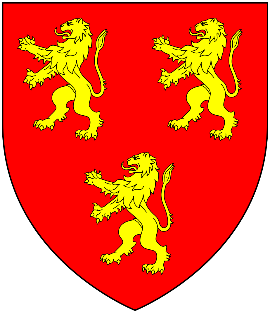 Arms of FitzRoger of Chewton Mendip, Somerset: Gules, three lions rampant or